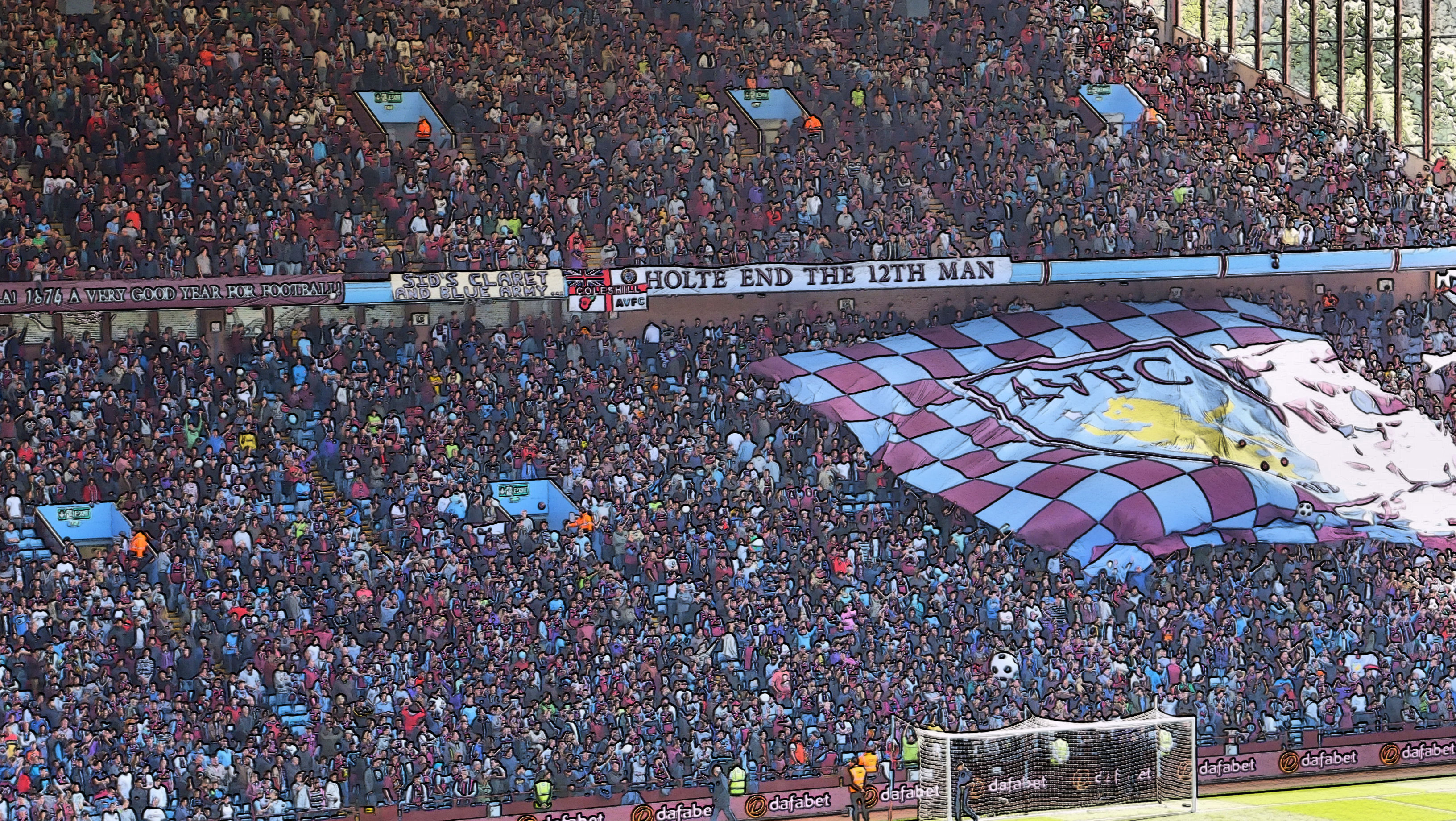 Banner at the Holte End at Villa Park, Birmingham